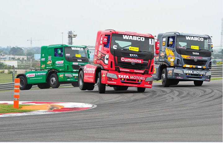 Tata truck racing and negotiating the curves at BIC